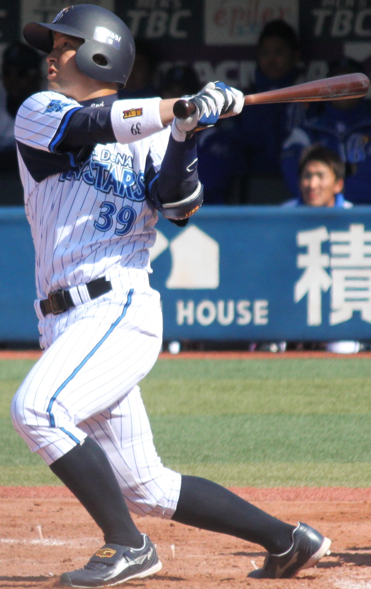 Hiroki Minei, a catcher of the Yokohama DeNA BayStars, at Yokohama Stadium.